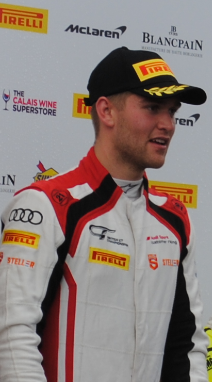 Sennan Fielding on the podium at Donington Park after winning the final race of the year and the 300th British GT race.